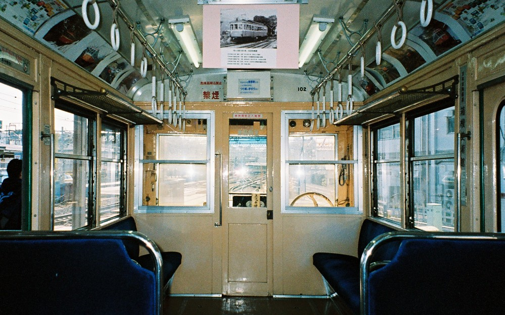 HAKONE TOZAN RAILWAY Mc102 cabin.